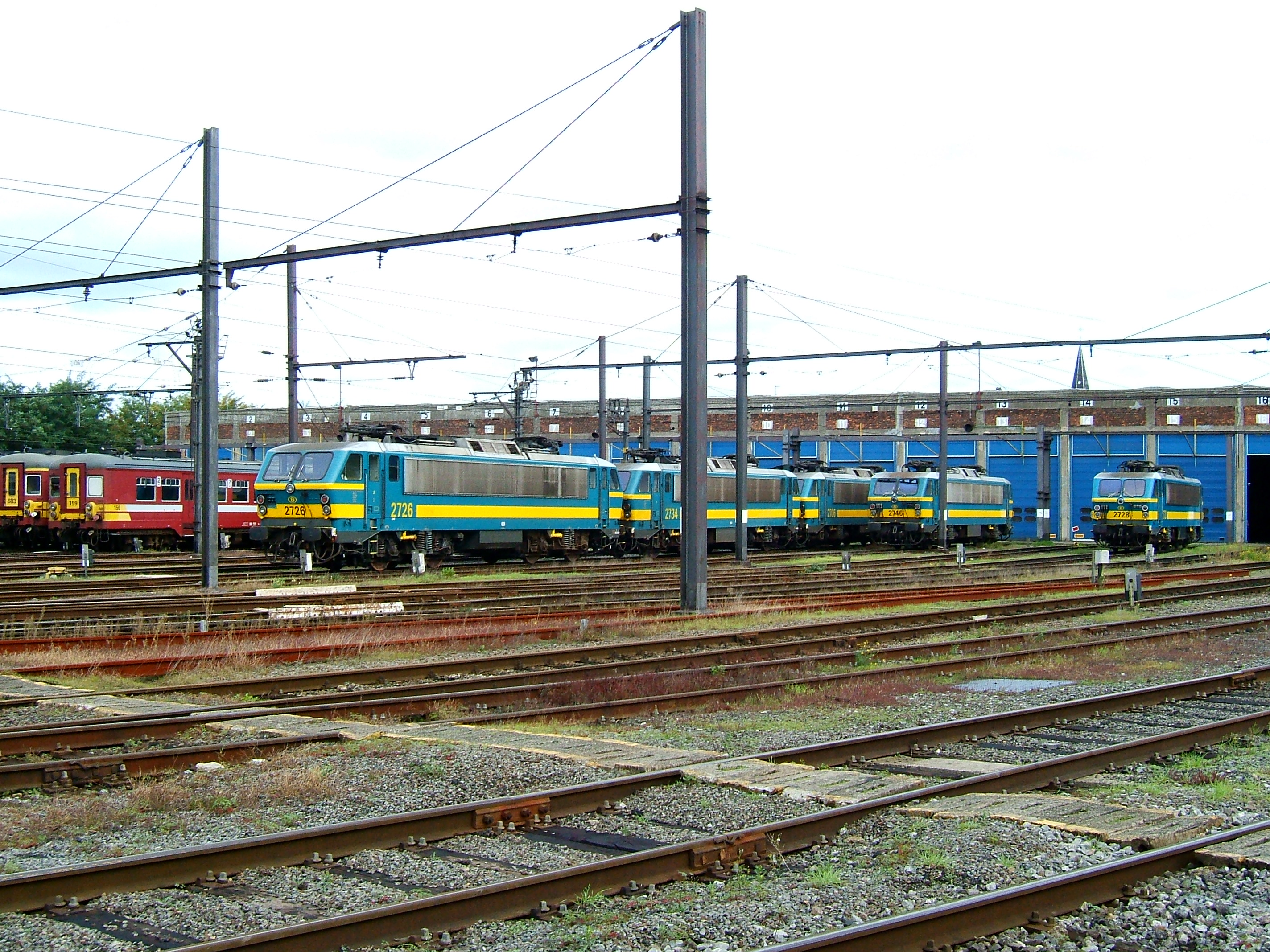 Locomotives at Kinkempois